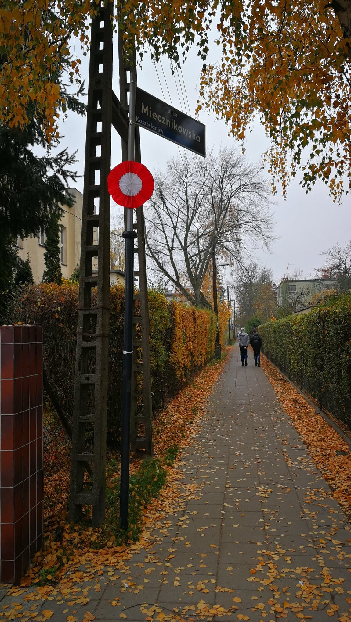 Miecznikowska street in Poznan at Abisynia settlement, fall 2018